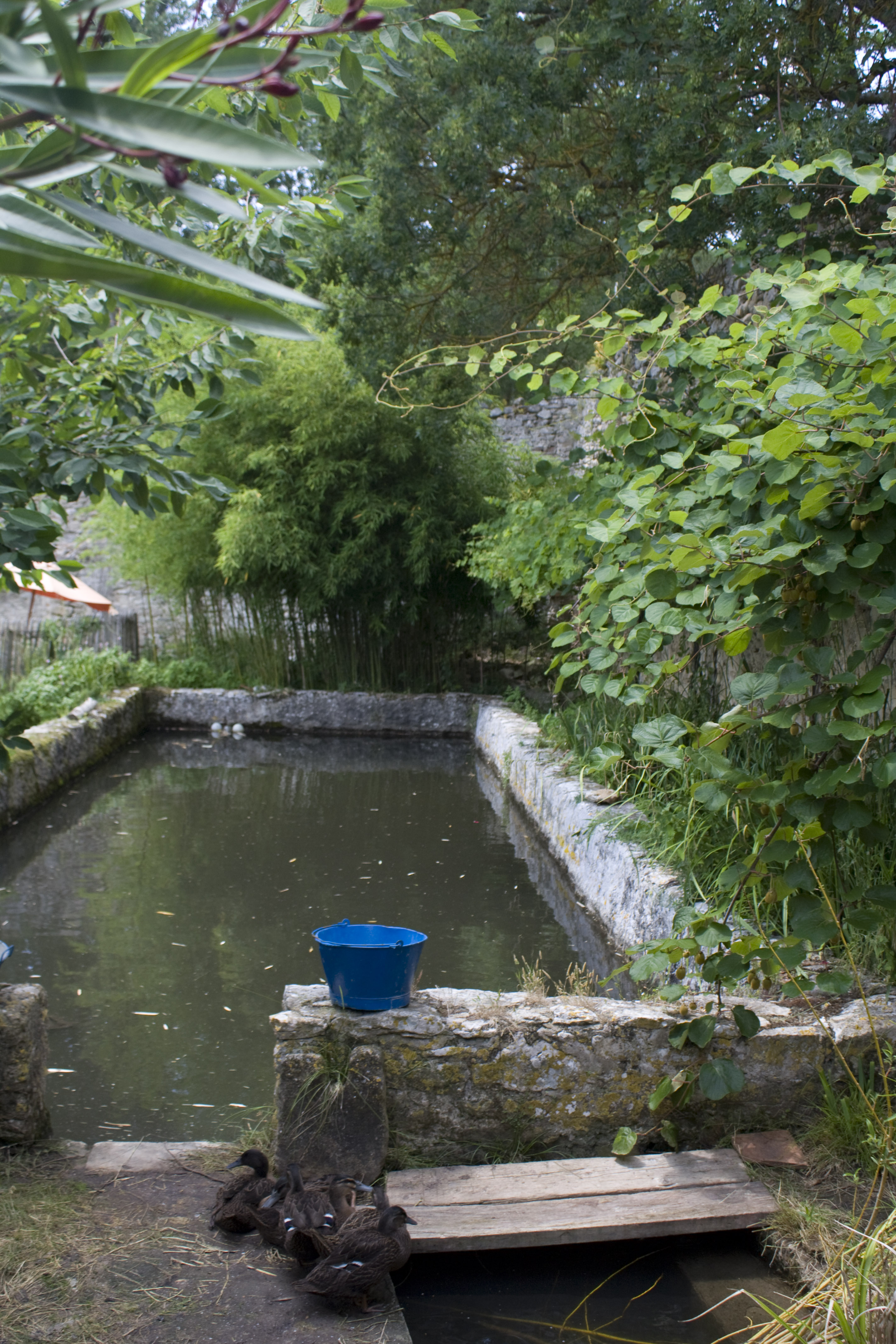 Vivier, along the wall at the foot of pigeon loft.